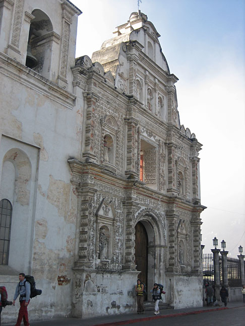 Church of the Holy Spirit, cathedral of Quetzaltenango.